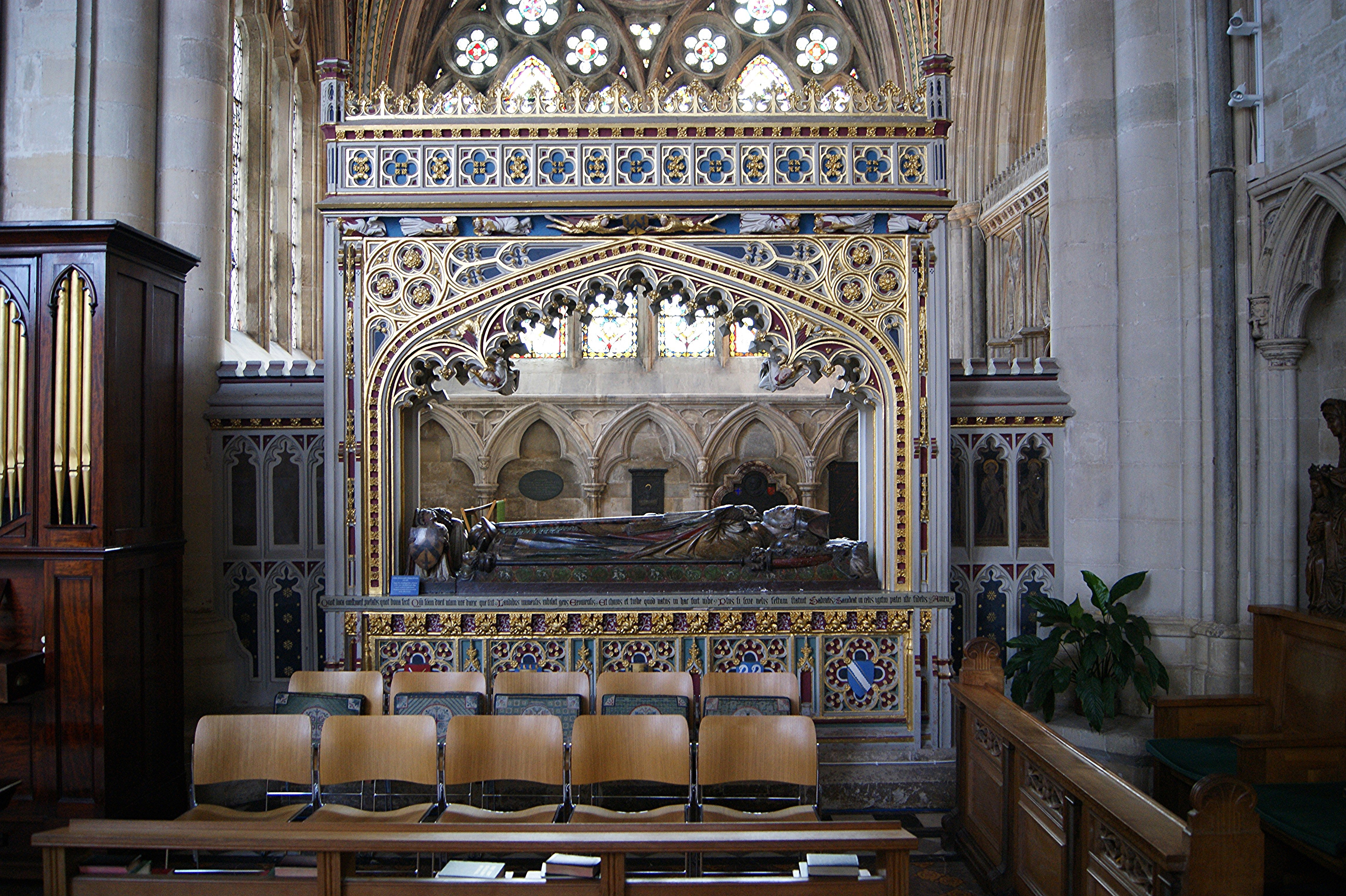 The tomb of Walter Bronescombe, Bishop of Exeter, (d:1280) at Exeter Cathedral (St. Peter), 06/14/14. Bronescombe began the rebuilding of the Norman Cathedral in the 1260's. The black basalt effigy dates from his death and retains much of its original paint. The chest-tomb and canopy was added in the 15th Century to match that of Edmund Stafford nearby. On a shield held by an angel at the feet of the bishop (and also at the top of the arch on a shield held by two angels) are shown the arms of Branscombe: Or, on a chevron sable three quatrefoils or two keys in chief argent a sword in base argent (per Pole, Sir William (d.1635), Collections Towards a Description of the County of Devon, Sir John-William de la Pole (ed.), London, 1791, p.473). The arms on the front of the chest-tomb at far right are Fortescue.